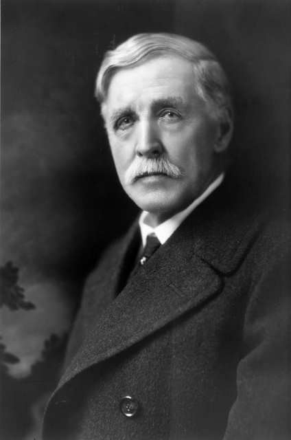 Photo of W.H.Jackson in later years